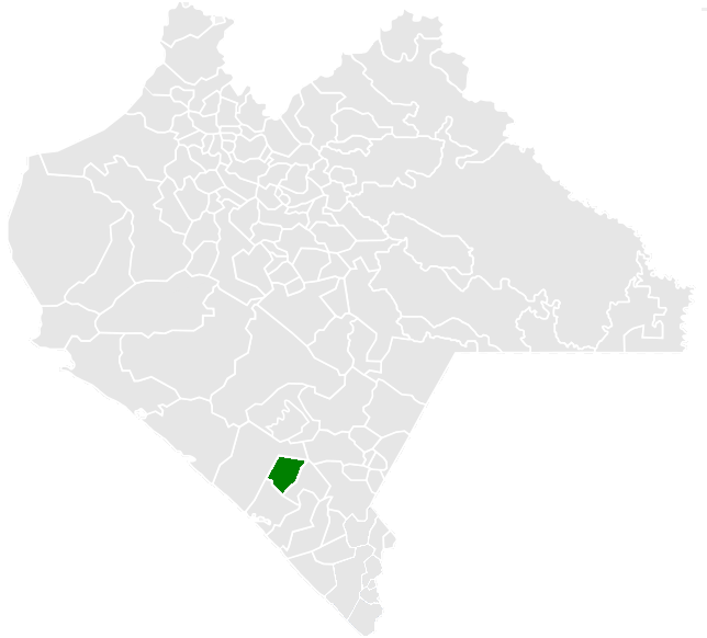 Map of the Municipalty of Acacoyagua in the State of Chiapas, México.